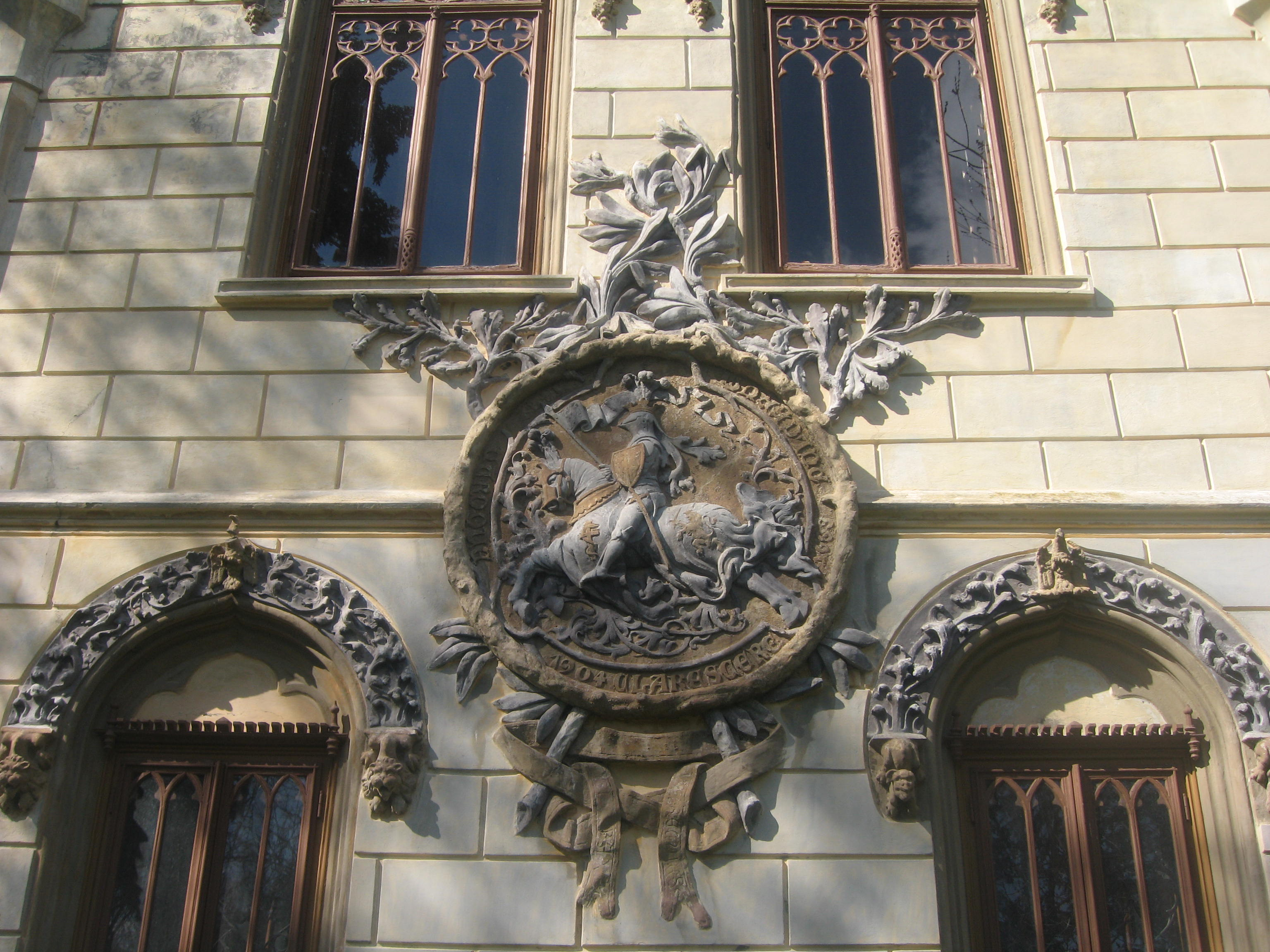 Sturdza Castle of Miclăuşeni 02